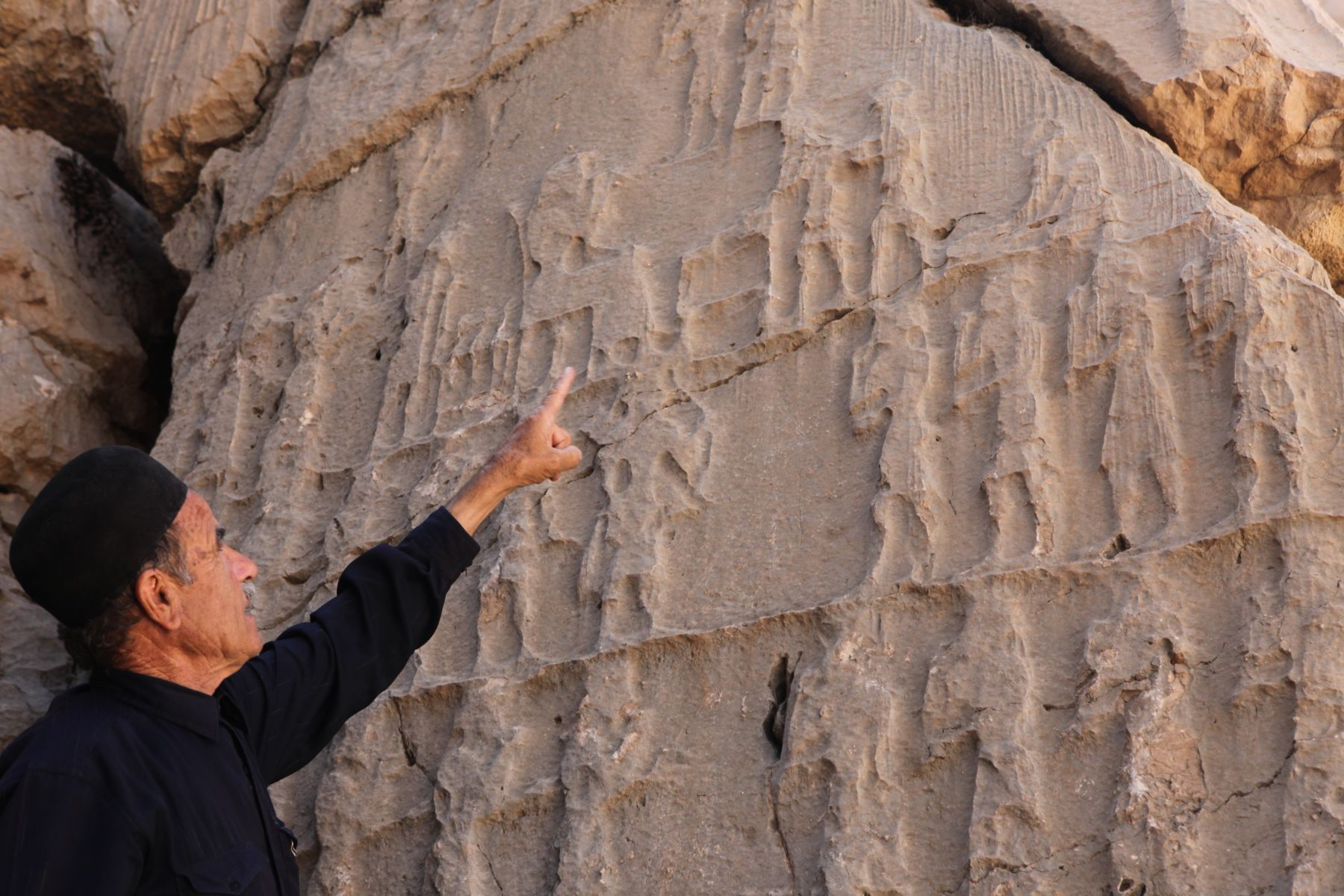 Elamite rock relief in Izef, Khuzestan, Iran; Ayapir culture